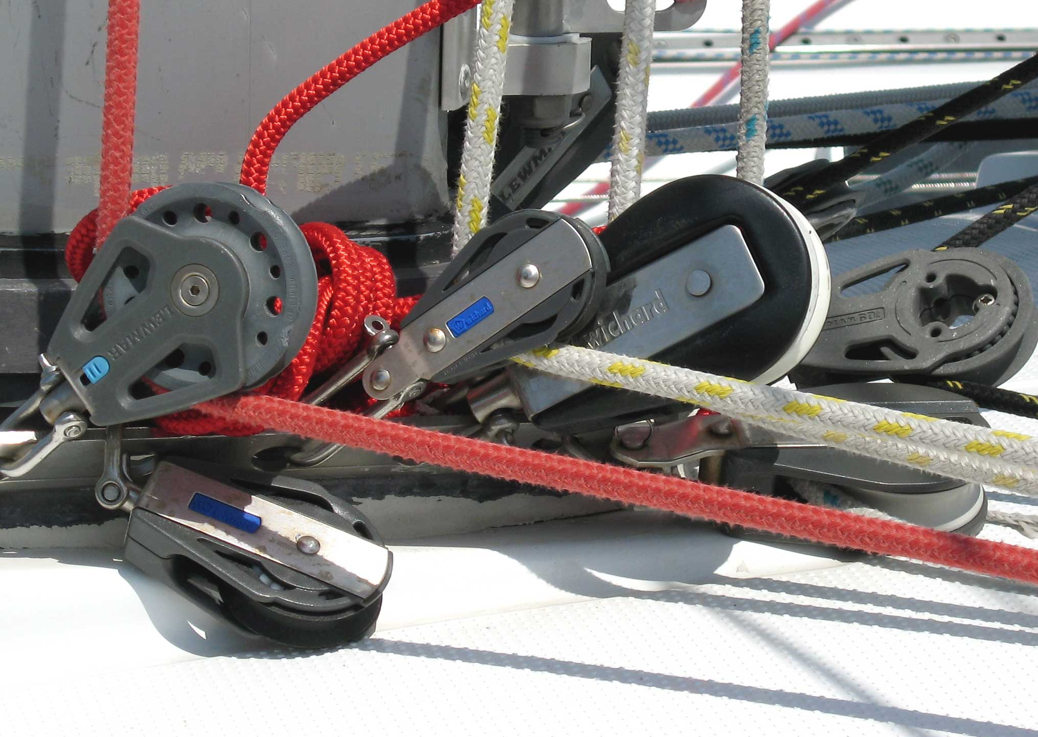 Blocks of different materials and sizes on a sailboat